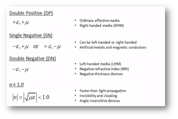 Classification of Metamaterials